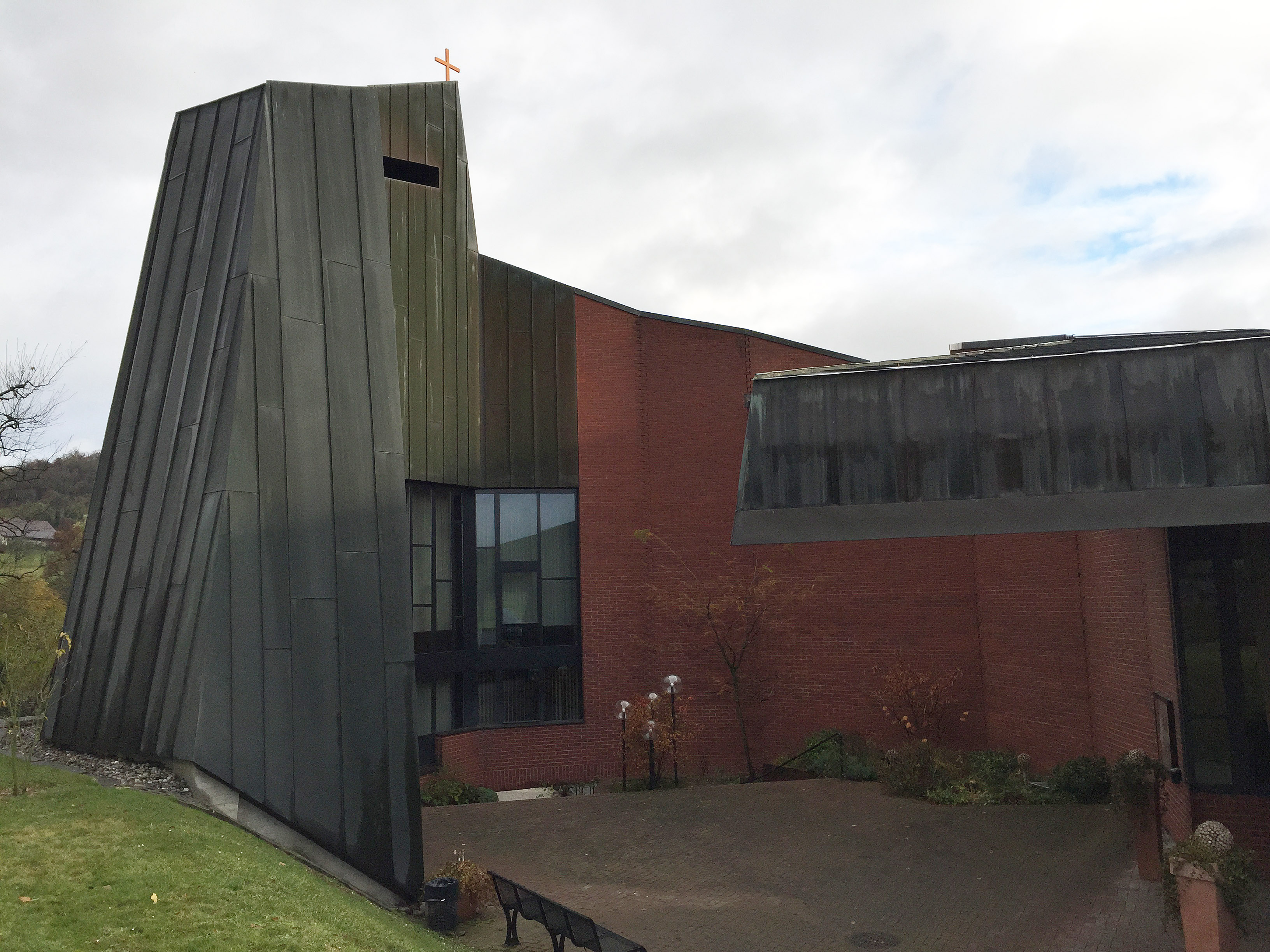 Entry of St Antony church